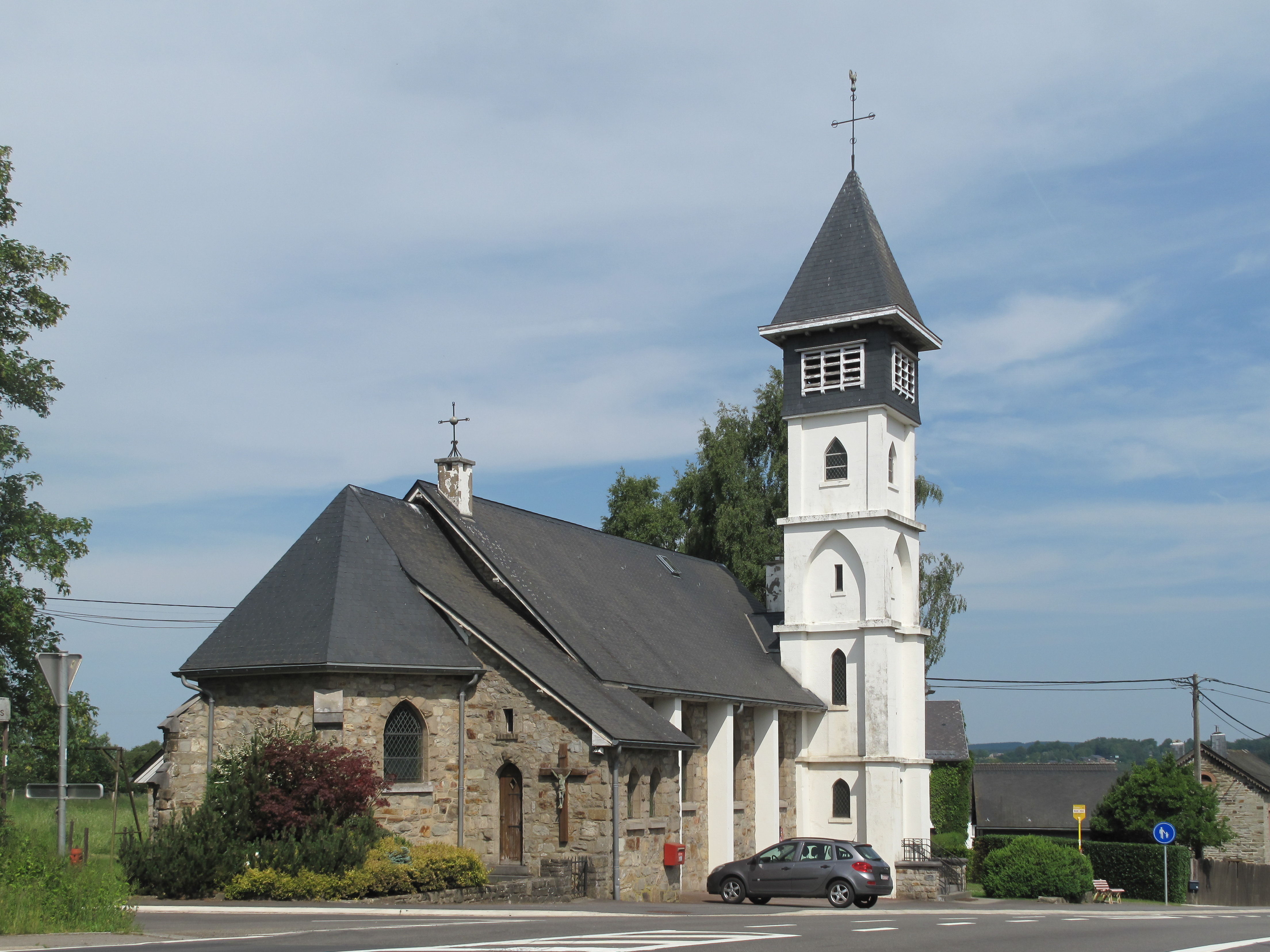 Géromont, church